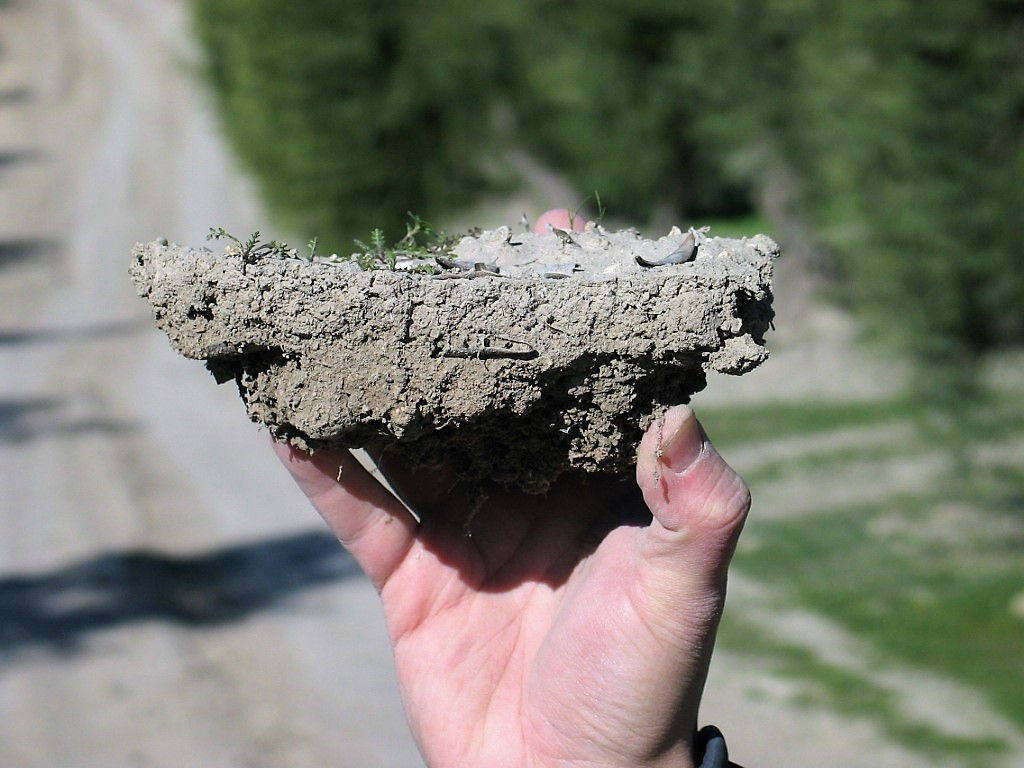 Subangular blocky soil aggregate near Fuentes de Andalucia in Spain. Credit: Antonio Jordán (distributed via ).